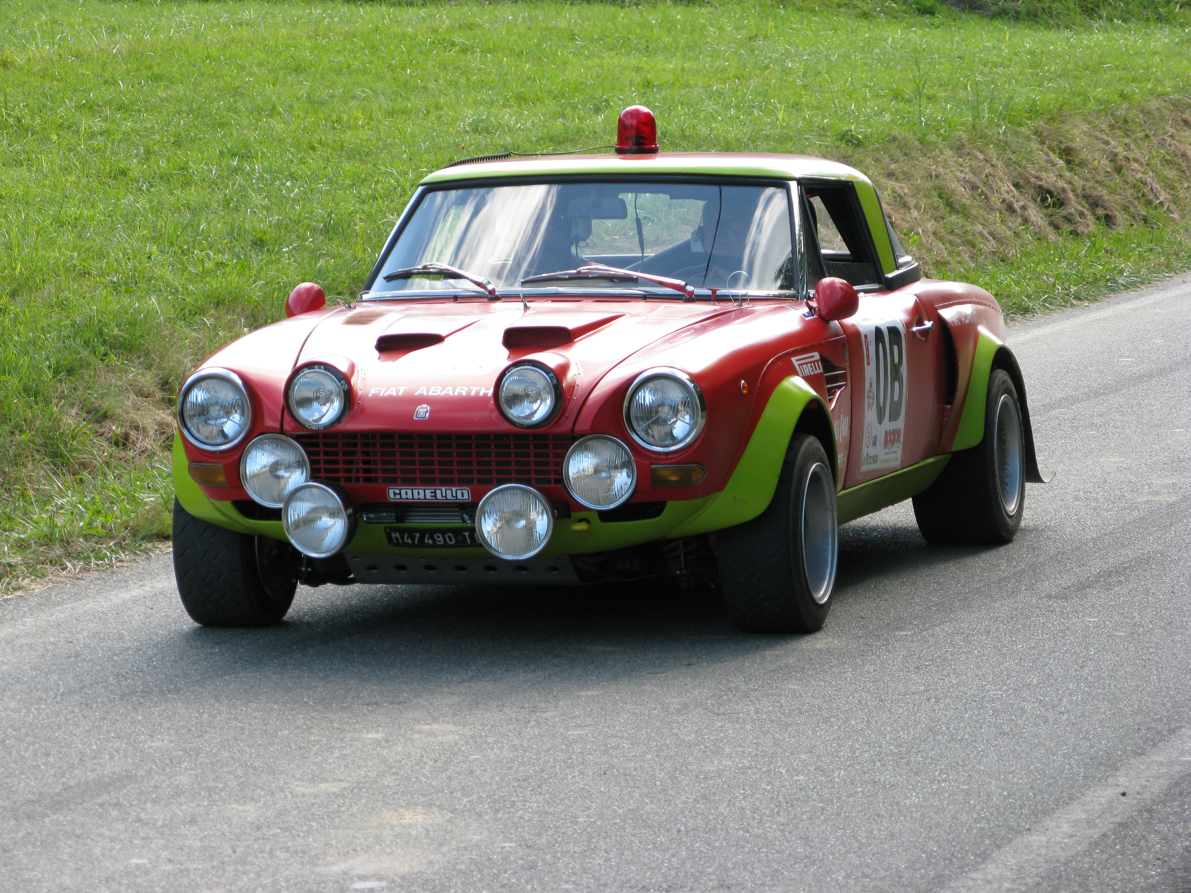 Images from the Rally 971 2008, Spigno Monferrato (Piemonte, Italy). Here a myth of the rallies in the '70s: the Fiat Abarth 124 Rally (see 5.10.2008